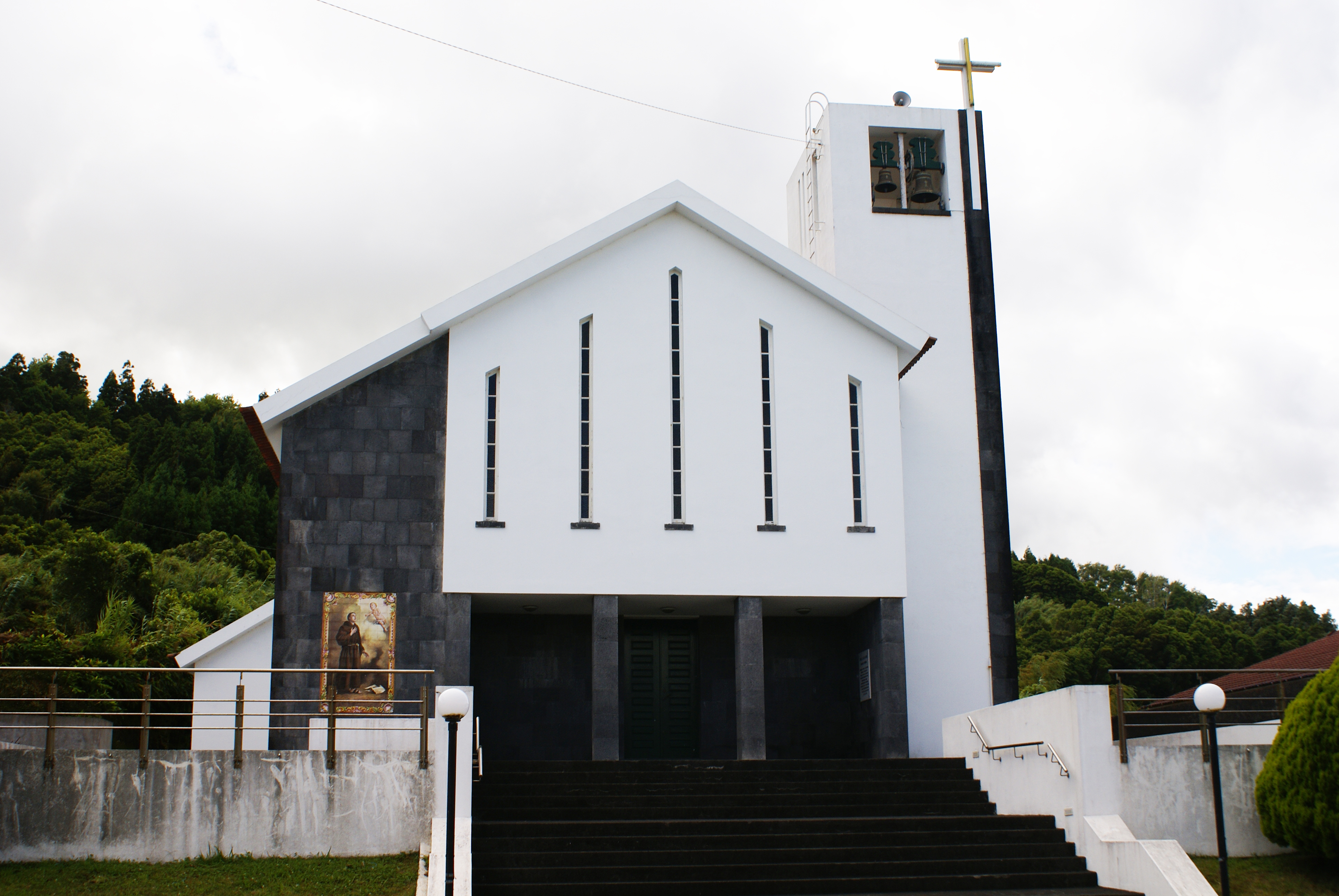 Igreja de Santo António, Espalhafatos, Ribeirinha, concelho da Horta, ilha do Faial, Açores, Portugal